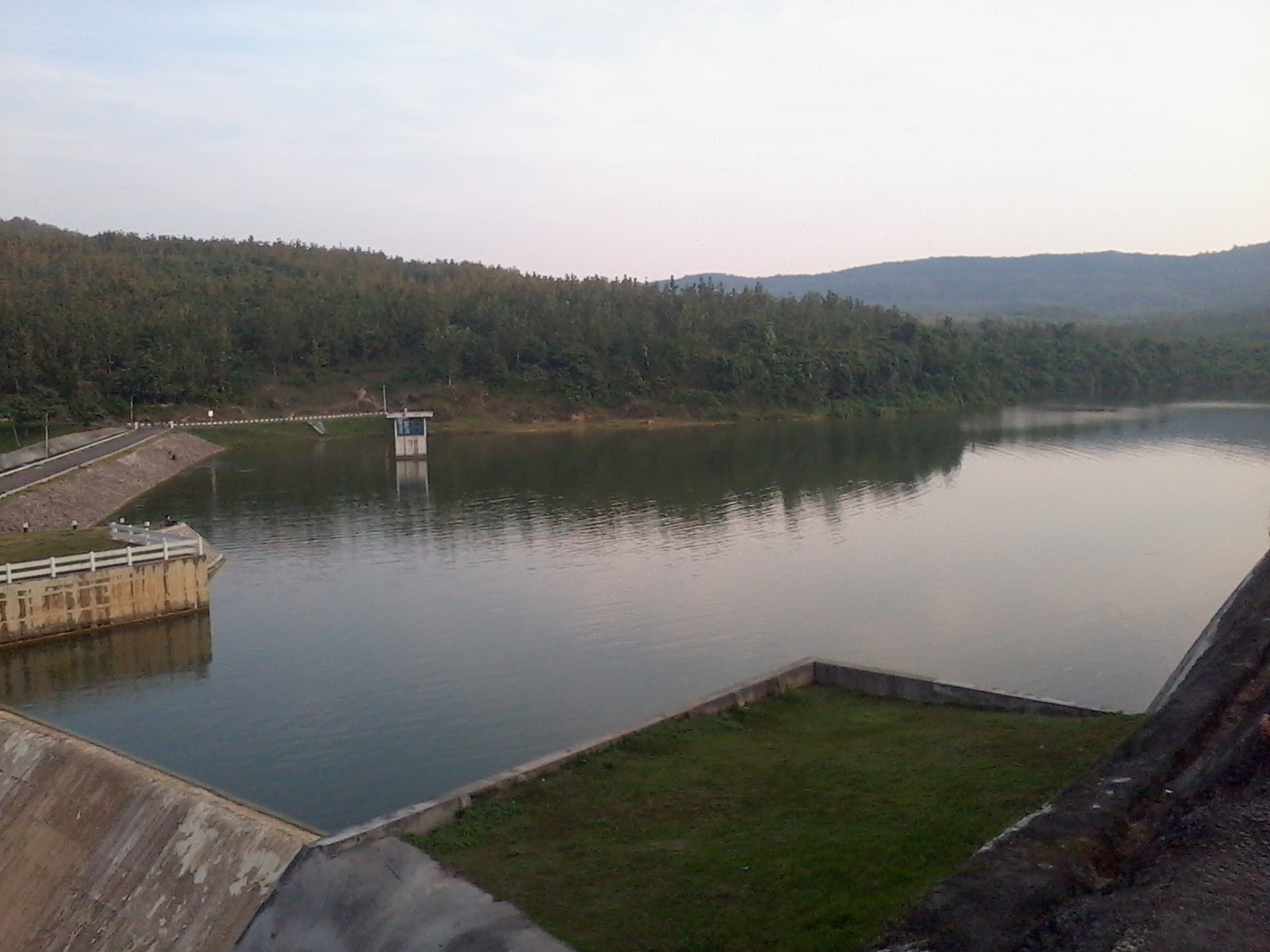 Panohan reservoir in district of Gunem Rembang, Central Java